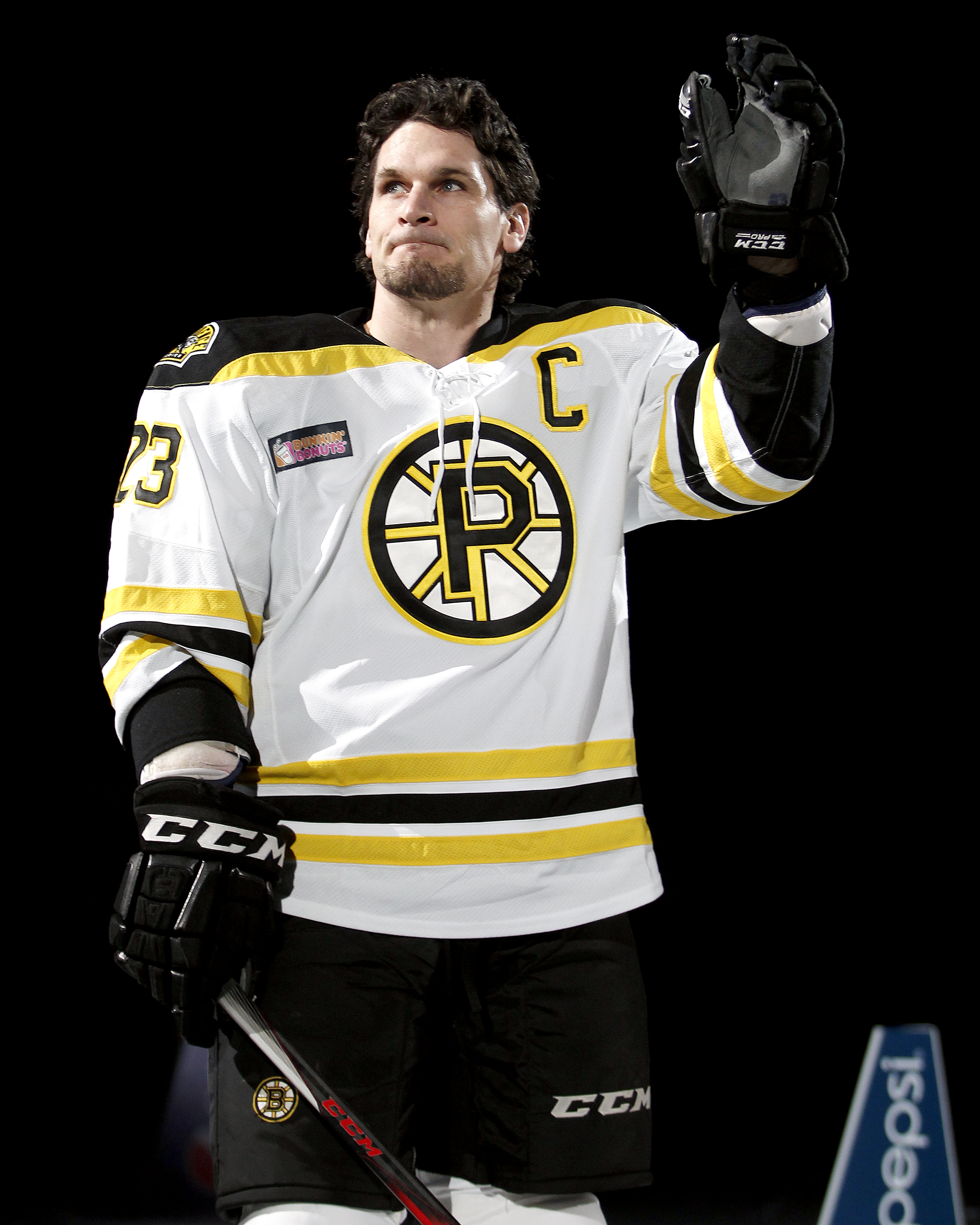 Alan Sullivan - Photographer American Hockey League (AHL). 2013 All-Star Skills Competition. Taken on January 27, 2013.